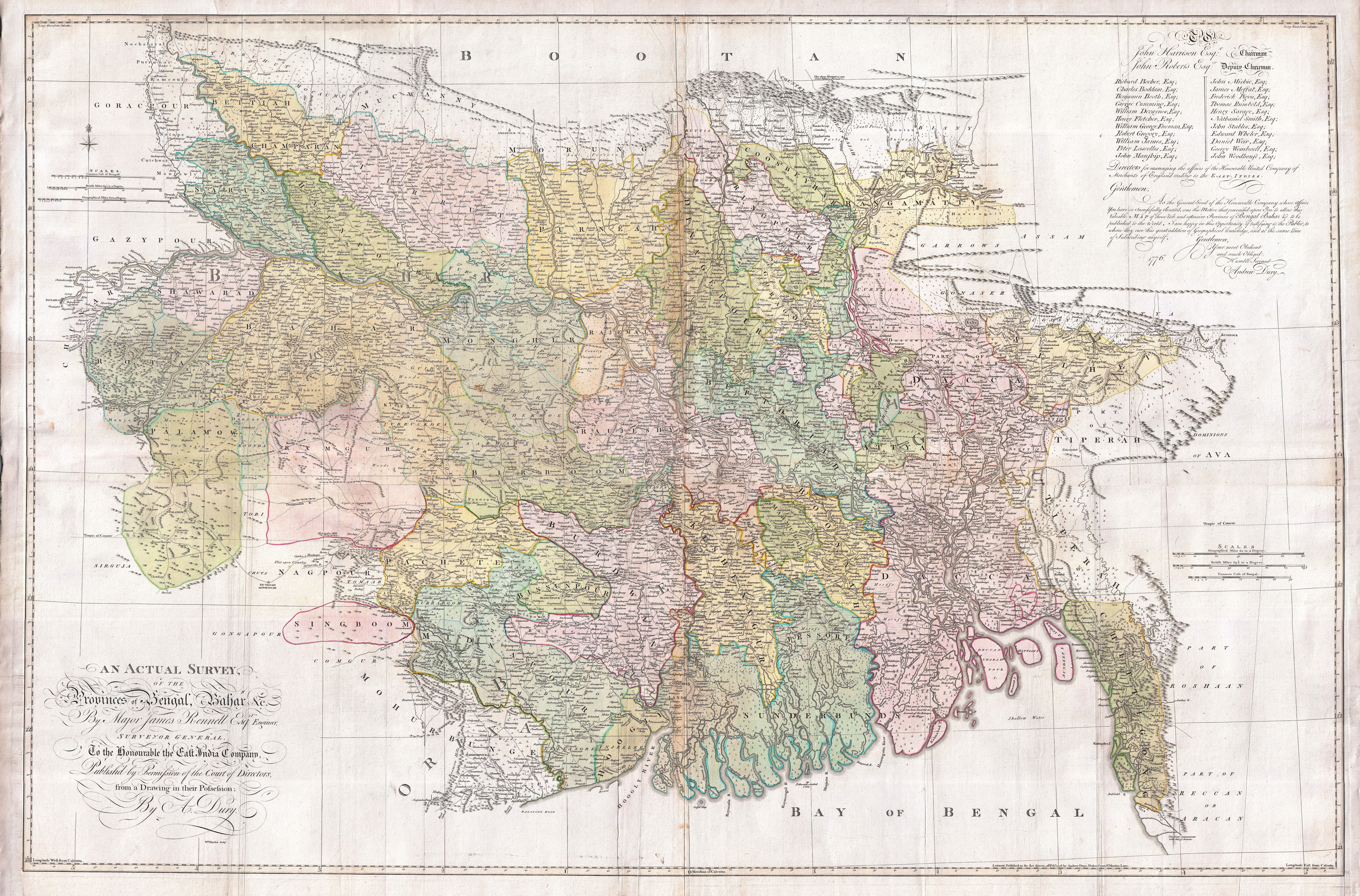 An altogether spectacular wall sized map of those parts of Bengal and Bihar, India. Follows the course of the Ganges River from Varanasi (Benares) eastward to the Ganges Delta and the Bay of Bengal. Includes Varanasi (Benares), Dacca (Dahka, Bengladesh), and Patna among many other important Indian cities. Bounded on the north by the Himalaya Mountains and the border with Bhutan. One of the first accurate maps of the interior of India. Laid out from primary surveys done by James Rennell, the first modern cartographer to map the interior of India. Notes cities, markets, battlefields, fortresses, roads, rivers, offers political commentary, and features some geographical references. Elaborate title in the lower left quadrant. Upper right quadrant features a dedication and letter of thanks written by Andrew Dury, the publisher, to the board of the East India Company. This is the first edition of this rare map – 1776 – as published by Dury. Later editions were published by Sayer and Bennet and by Laurie and Whittle. Another high quality digitisation is available at the David Rumsey Historical Map Collection: [1] This map was published by Laurie and Whittle, as mentioned in the description by Geographicus for the 1776 map, in 1794. Regions are demarcated in coloured outlines instead of filled colours. A higher quality digitisation than that of Geographicus. Contains parts that are missing at the central vertical fold in the Geographicus digitisation of the 1776 map. Viewable in online Flash viewer and downloadable in MrSID format.